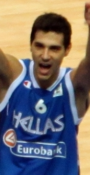 The Greek National Team of Basketball... Greece edged Turkey in a EuroBasket Quarter-Final thriller. [Turkey 74-76 Greece, Eyrobasket 2009, Poland] Turkey 76-74 Greece